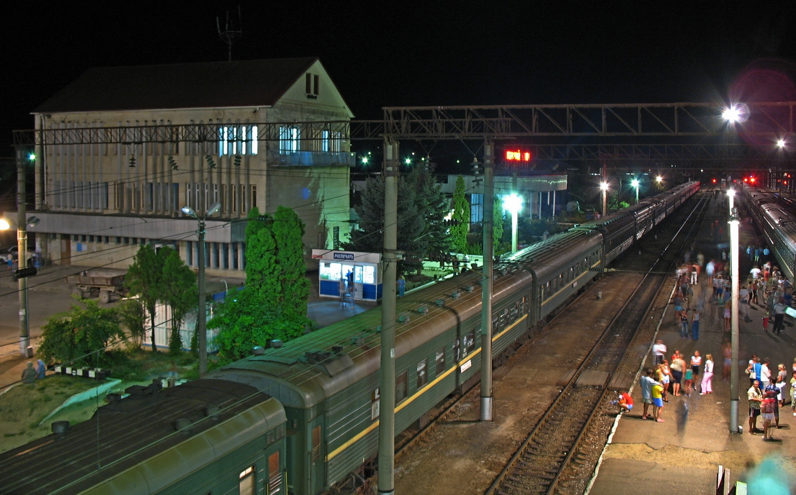 Railway station of Goryachiy Klyuch